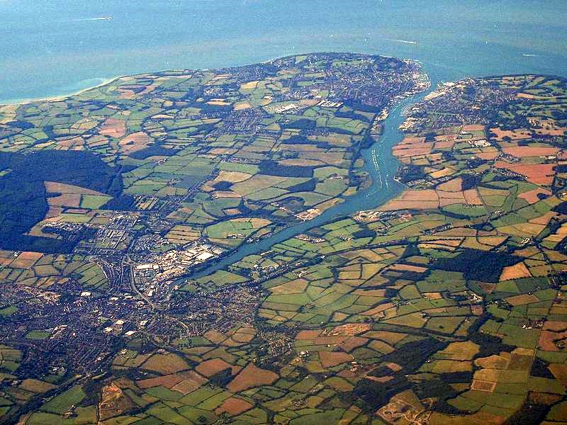 An aerial photograph of Newport and Cowes, Isle of Wight taken from the south on a flight into Gatwick Airport.